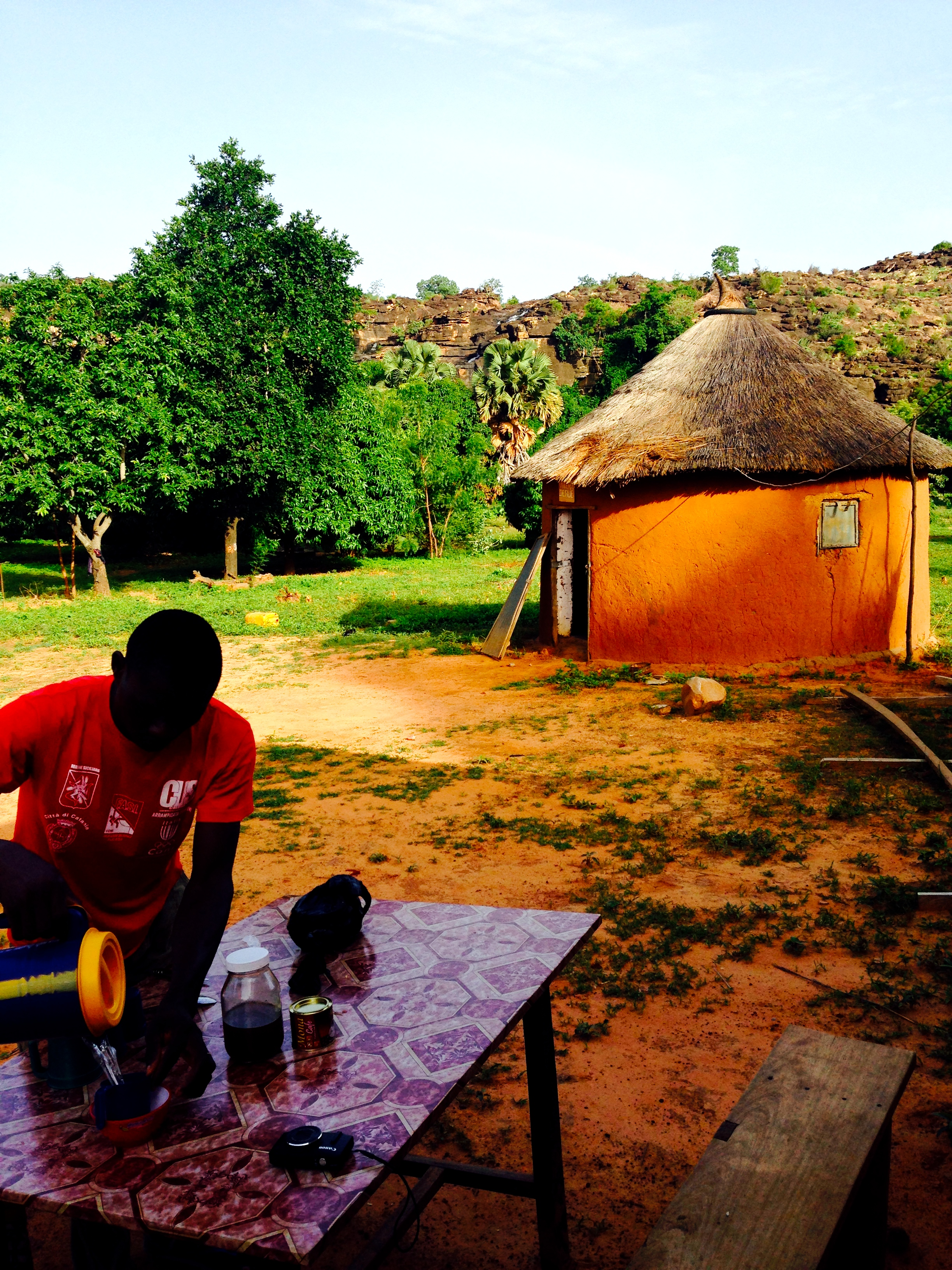 Coffee time with the view of Gobnangou Cliff, Burkina Faso.